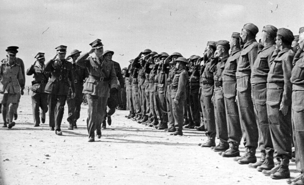 Polish Carpathian Brigade in Tobruk, gen. Sikorski's visit